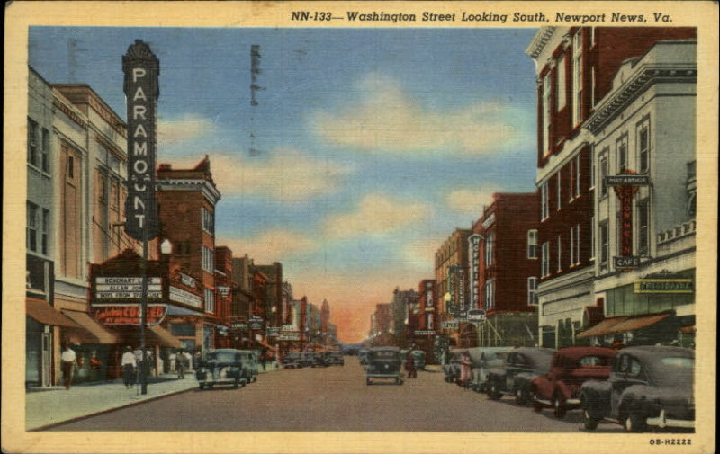 This is a picture of a postcard from the 1940s of Washington Avenue in Newport News.